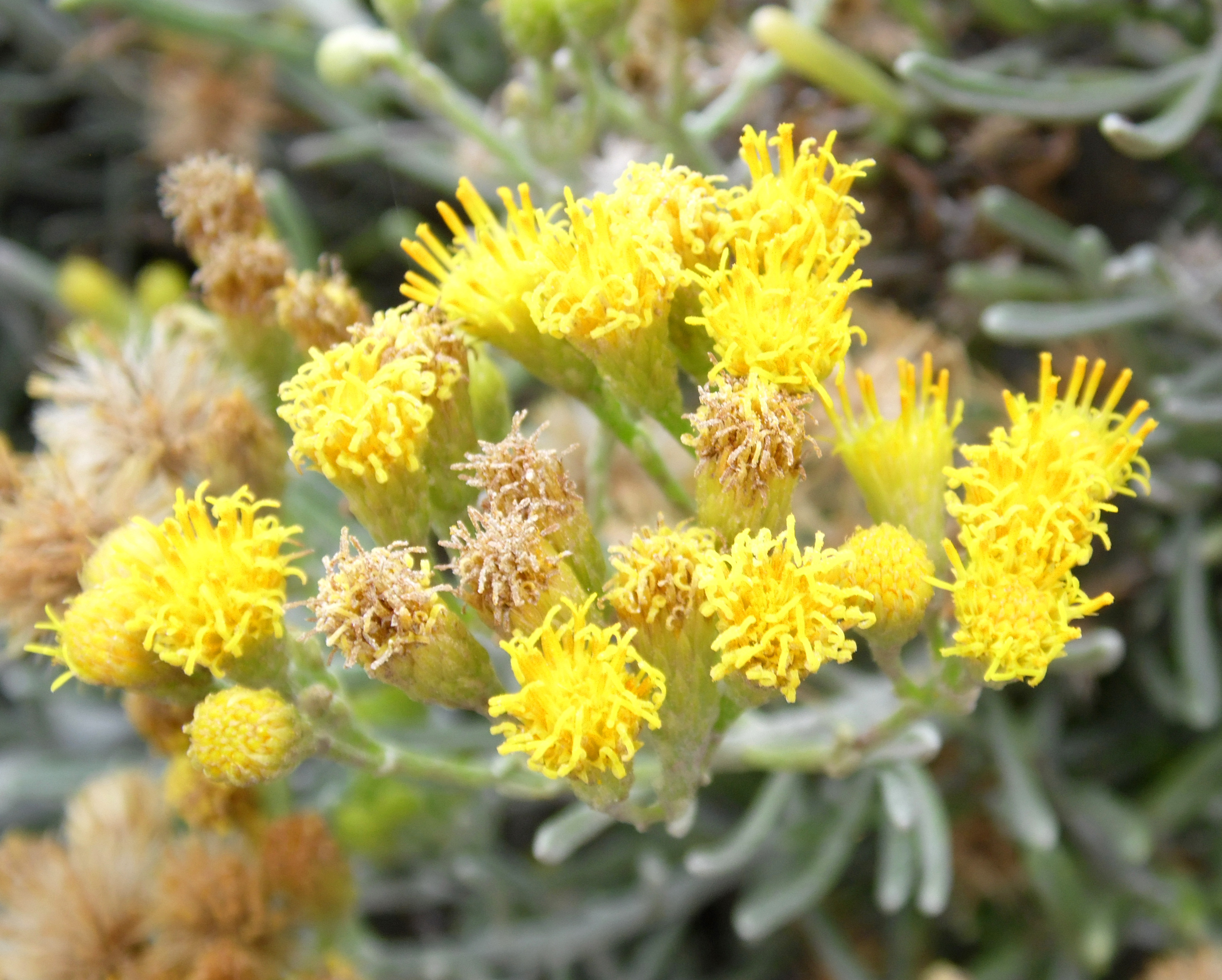 Schizogyne sericea in Pozo de Izquierdo on Gran Canaria